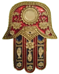 Derivative work: cropped from File:Hamsa.jpg